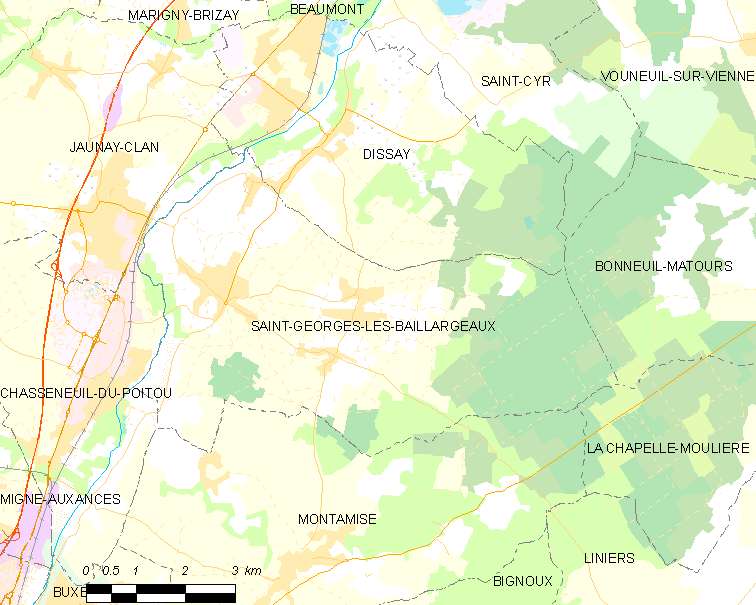 Map of French municipality Saint-Georges-lès-Baillargeaux